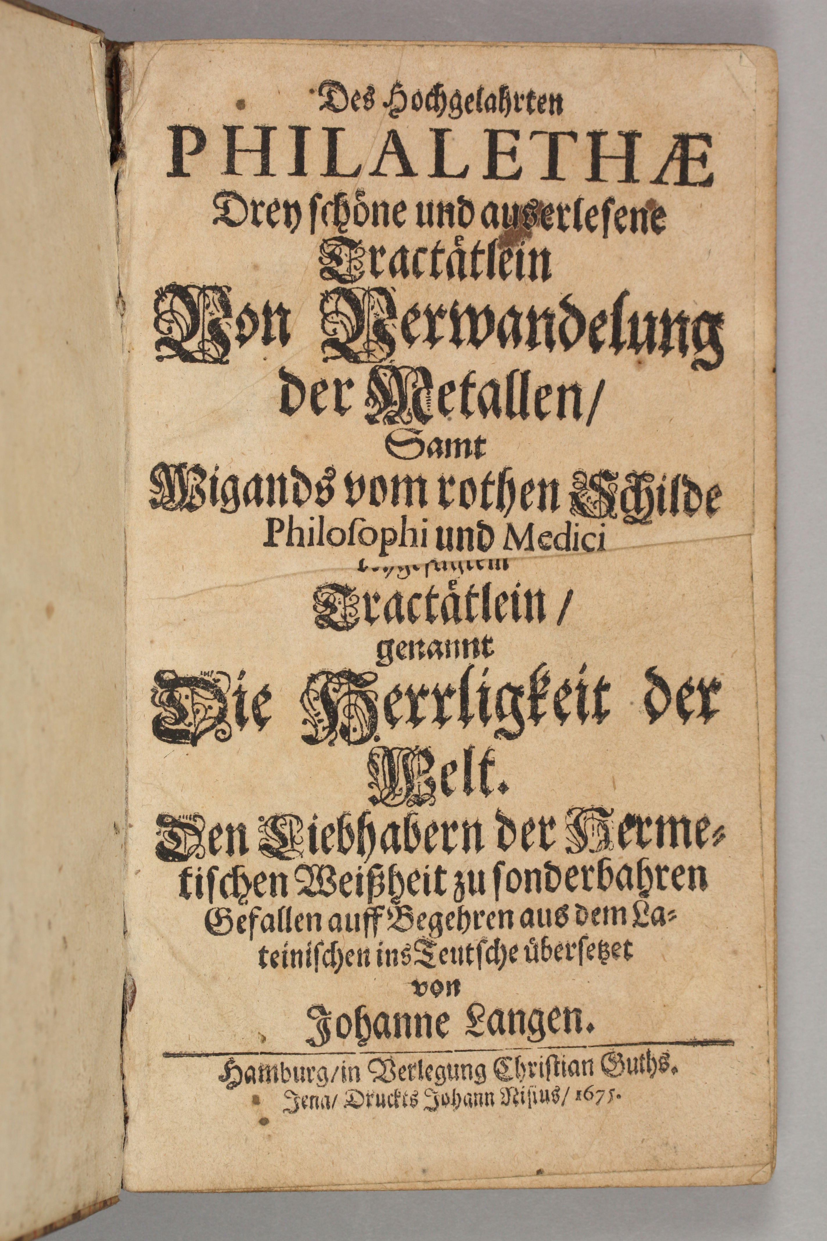 Title page of Drey schöne und auserlesene Tractätlein von Verwandelung der Metallen, Hamburg: C. Guths, 1675. George Starkey (1628-1665) grew up in America and studied at Harvard University before moving to England and becoming Robert Boyle’s alchemical tutor. Many of his works were published under the pseudonym Eirenaeus Philalethes, "the peaceful lover of truth".